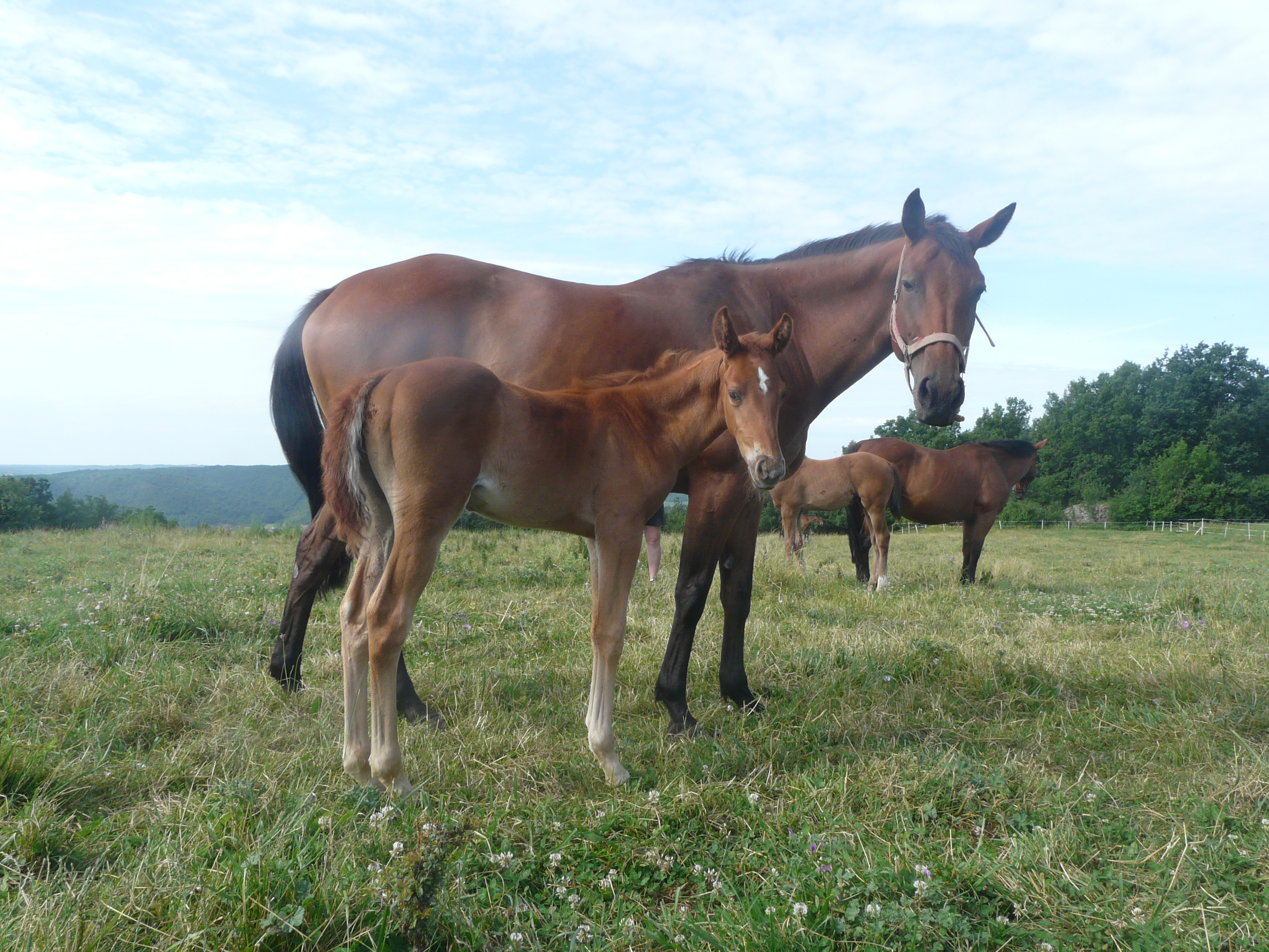 Anglo-arabian mare and her foal, Elevage de Mels, France